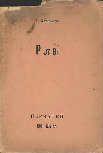 "Ryav", book of poetry by Velemir Khlebnikov, 1913